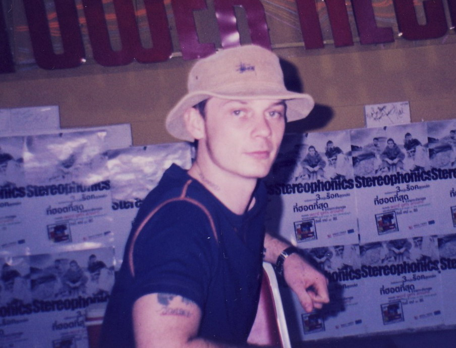 Richard Jones in Bangkok, Thailand